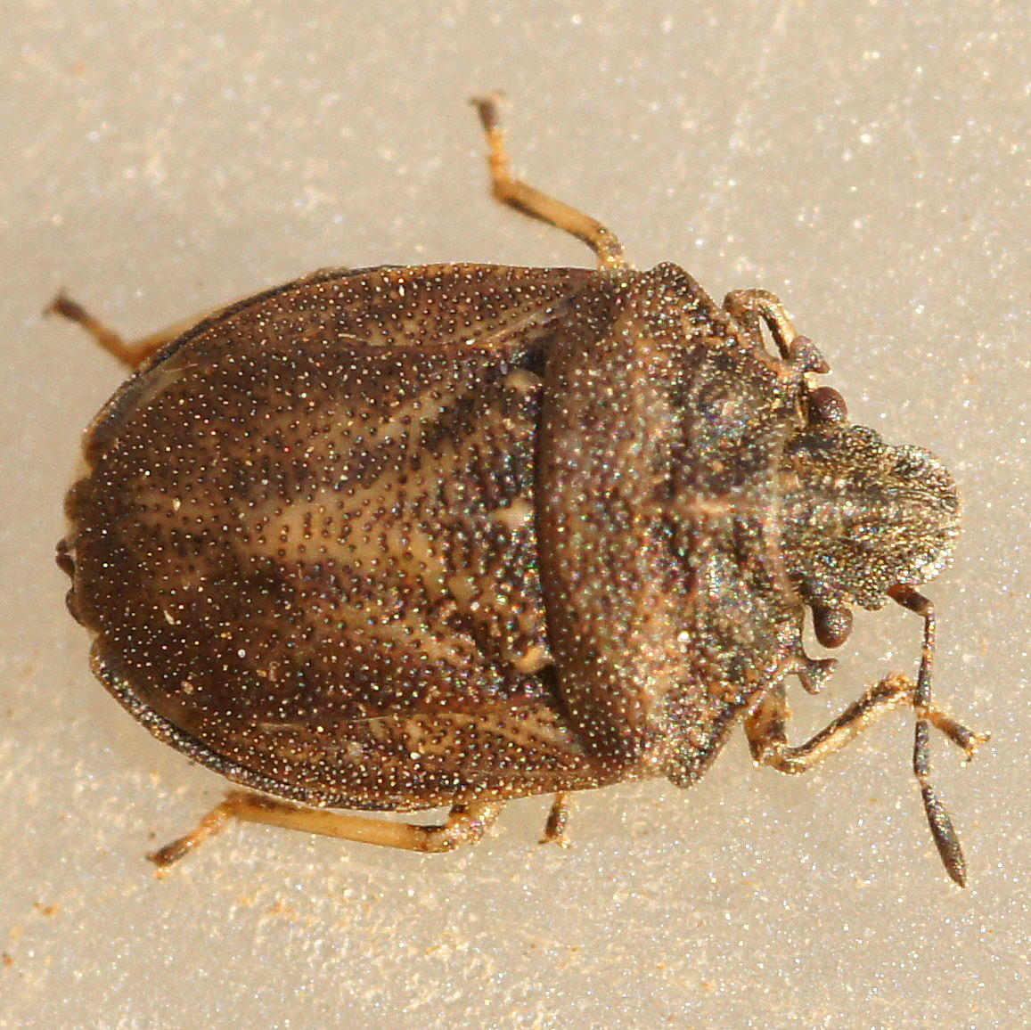 Podops inunctus. Picture taken in Skåne, Sweden.